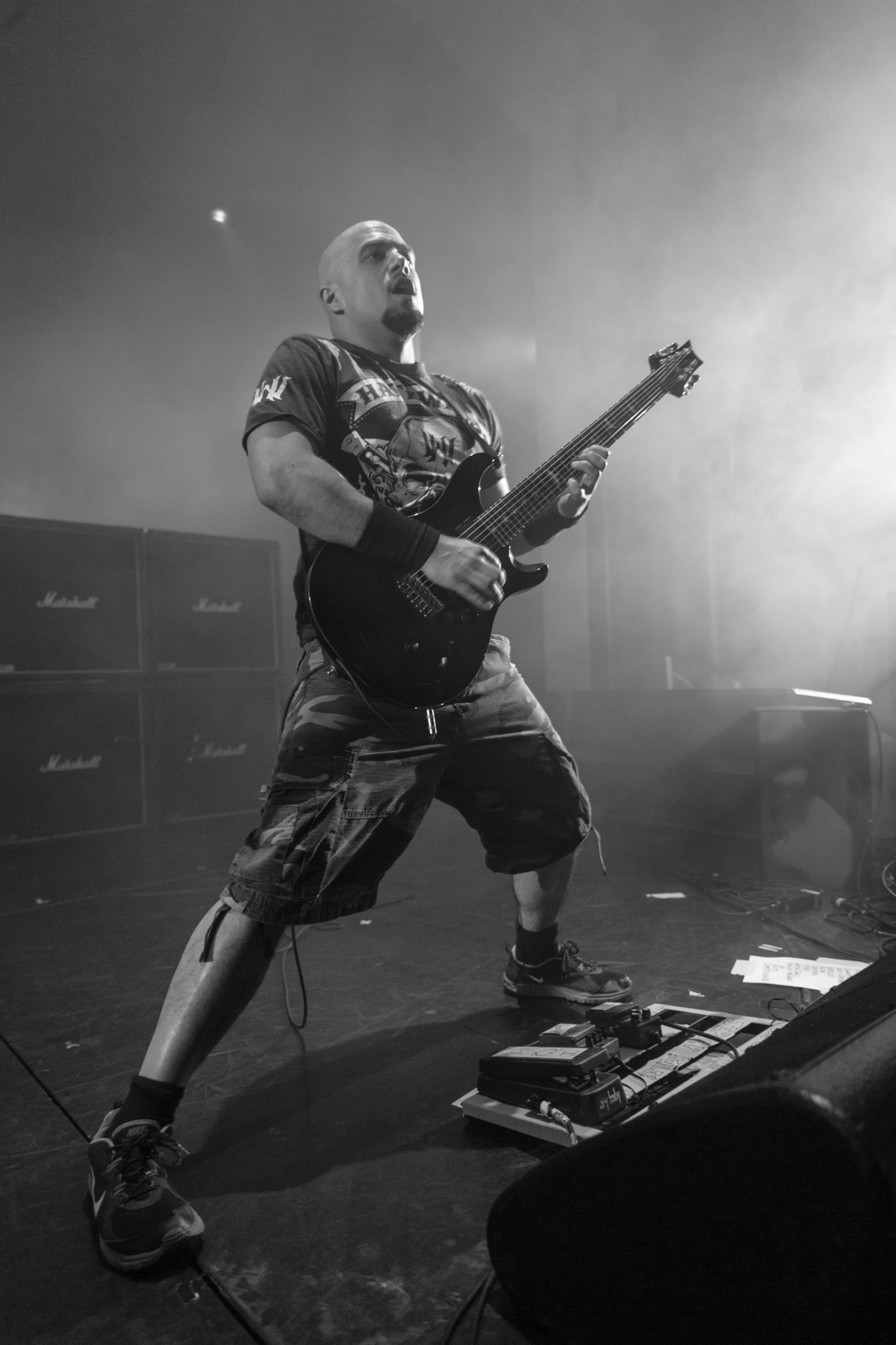 Soulfly performing at 70.000 tons of metal, january 2015